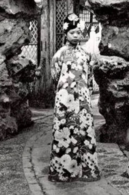 Concubine of Emperor Puyi